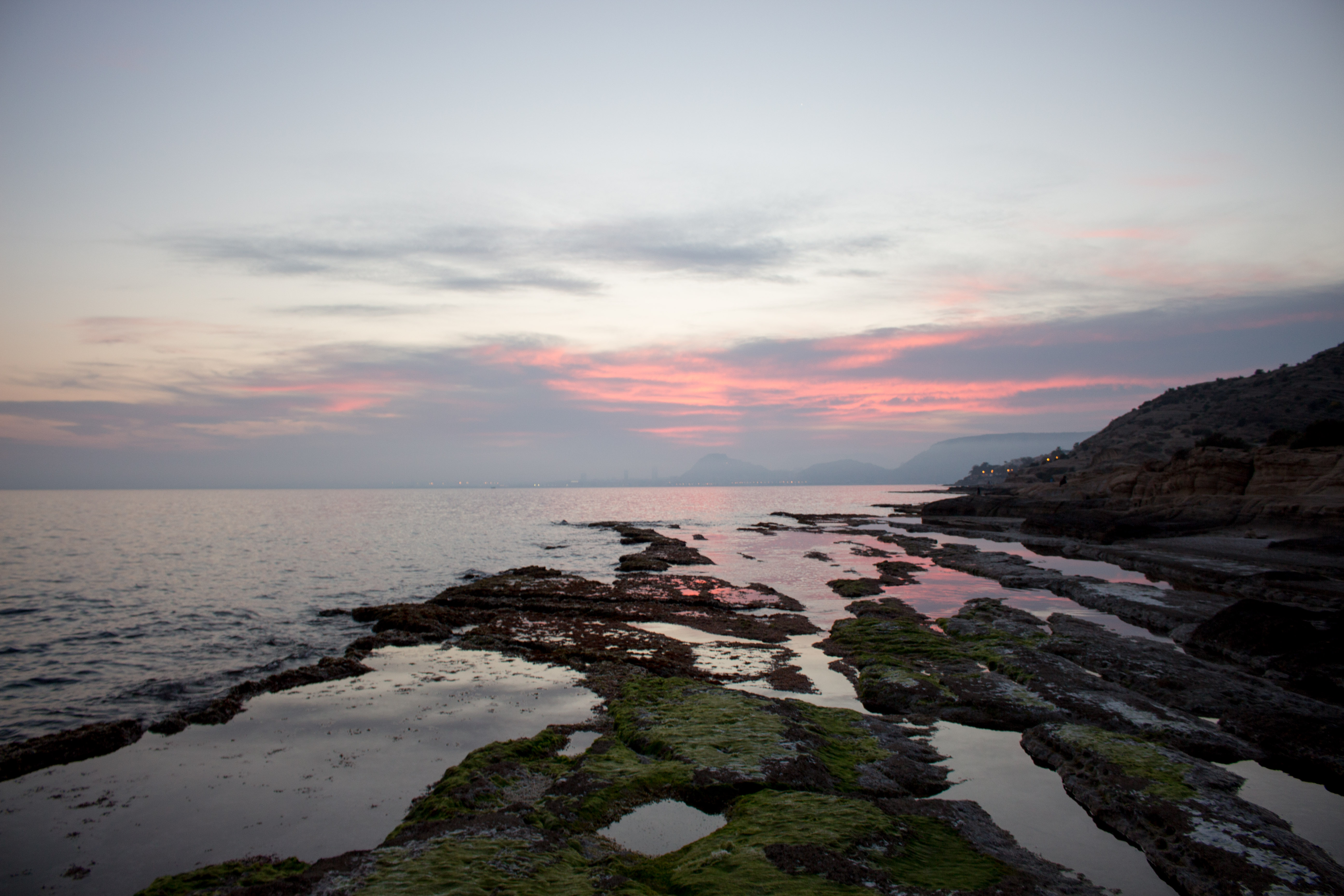 This is a photography of a Special Area of Conservation in Spain with the ID: ES5213032. Natura2000 entry, EEA entry